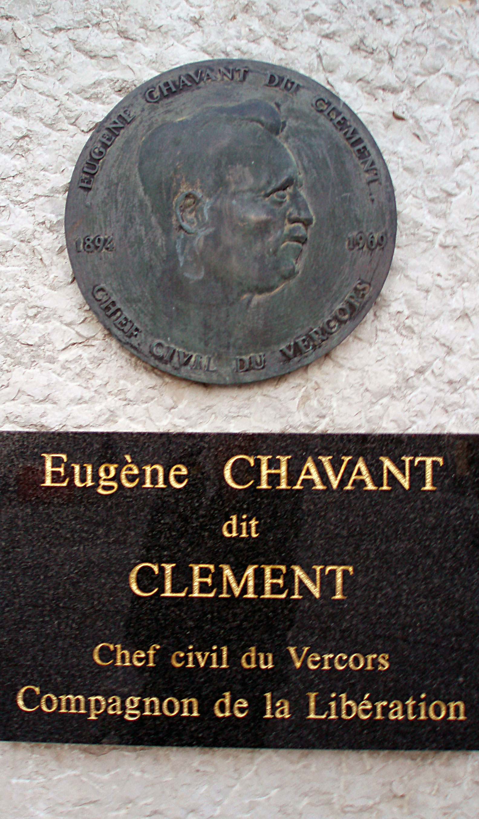 Photograph of detail of memorial to Eugène Chavant in Grenoble, France